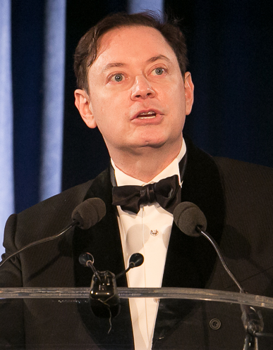 2015 PEN Gala, May 5, 2015, American Museum of Natural History © Beowulf Sheehan/PEN American Center